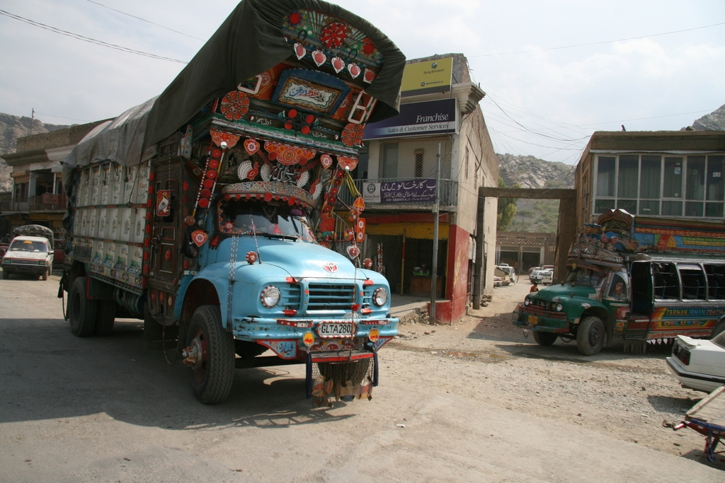 Khyber Pass Landi Khotal town decorated truck